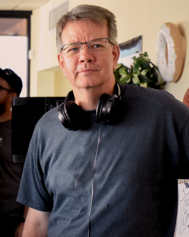 Writer-director Bruce Dellis on the set of his 2019 film, Raising Buchanan.